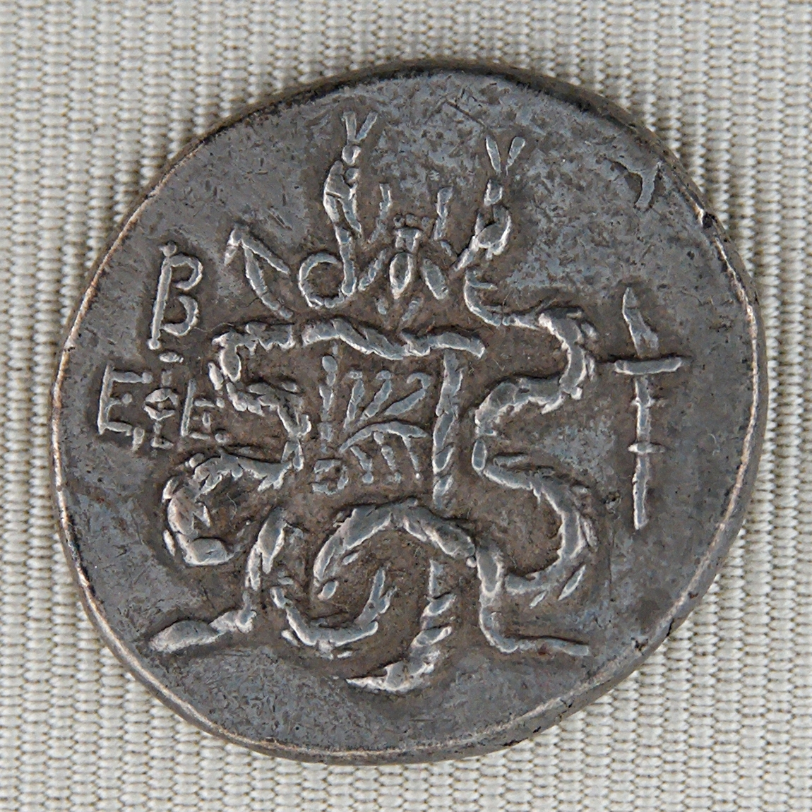 Silver cistophoros minted in Ephesos, ca. 134–131 BC: snakes entwined around a bow case, with a torch in the field. From Pergamon.